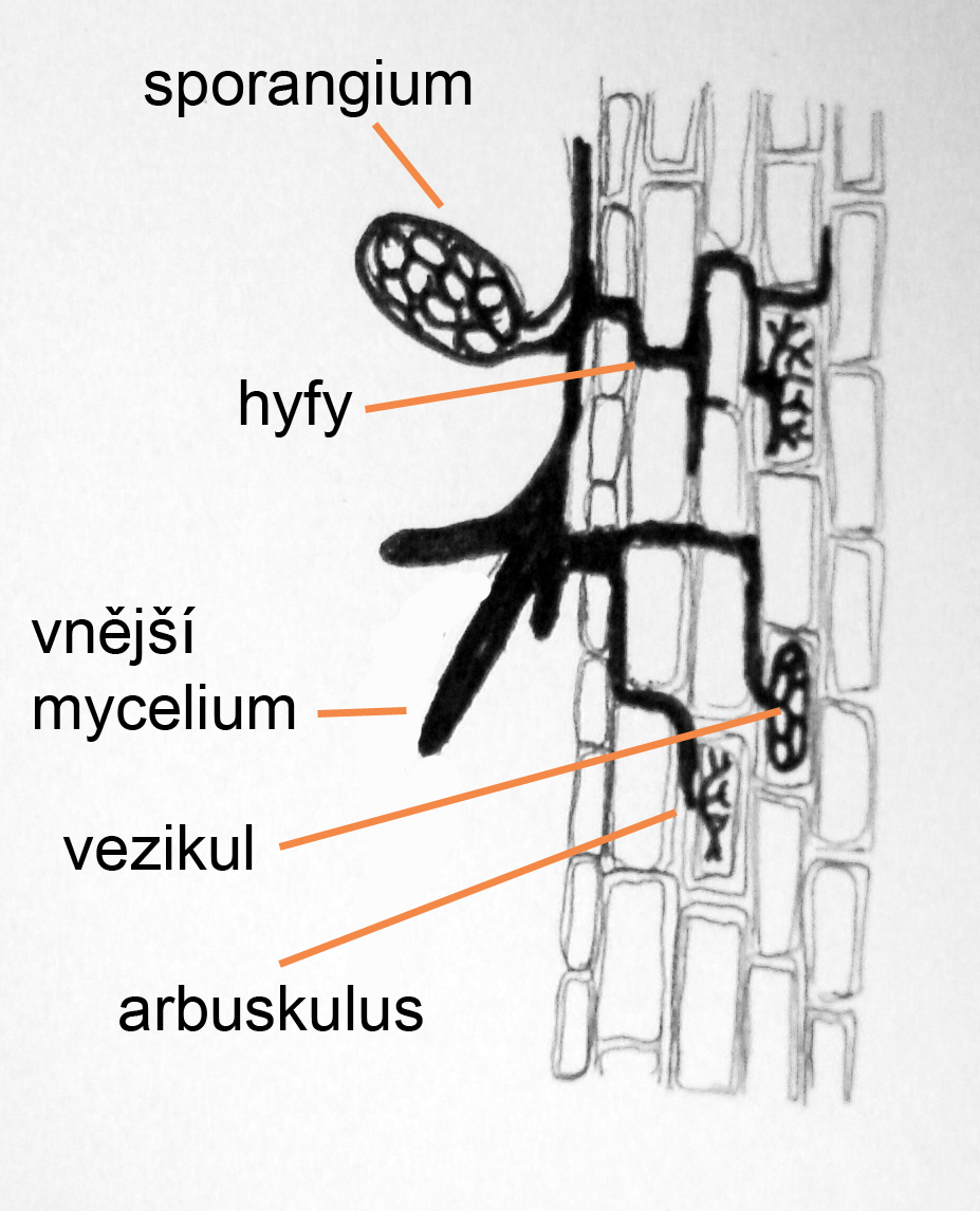 arbuscular mycorriza, czech version. i can provide you with my image without the words.